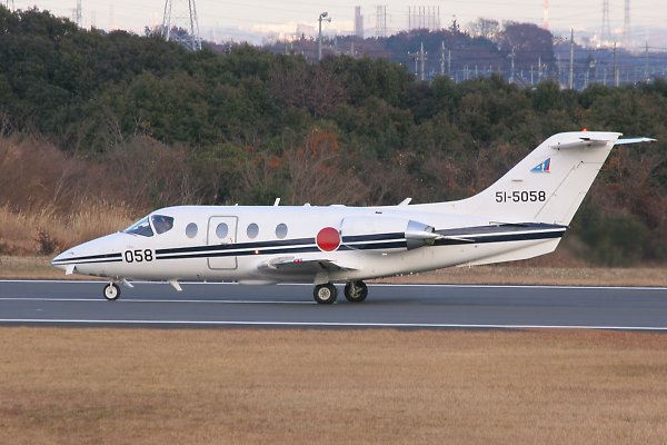 T-400 takes off from the Iruma base.